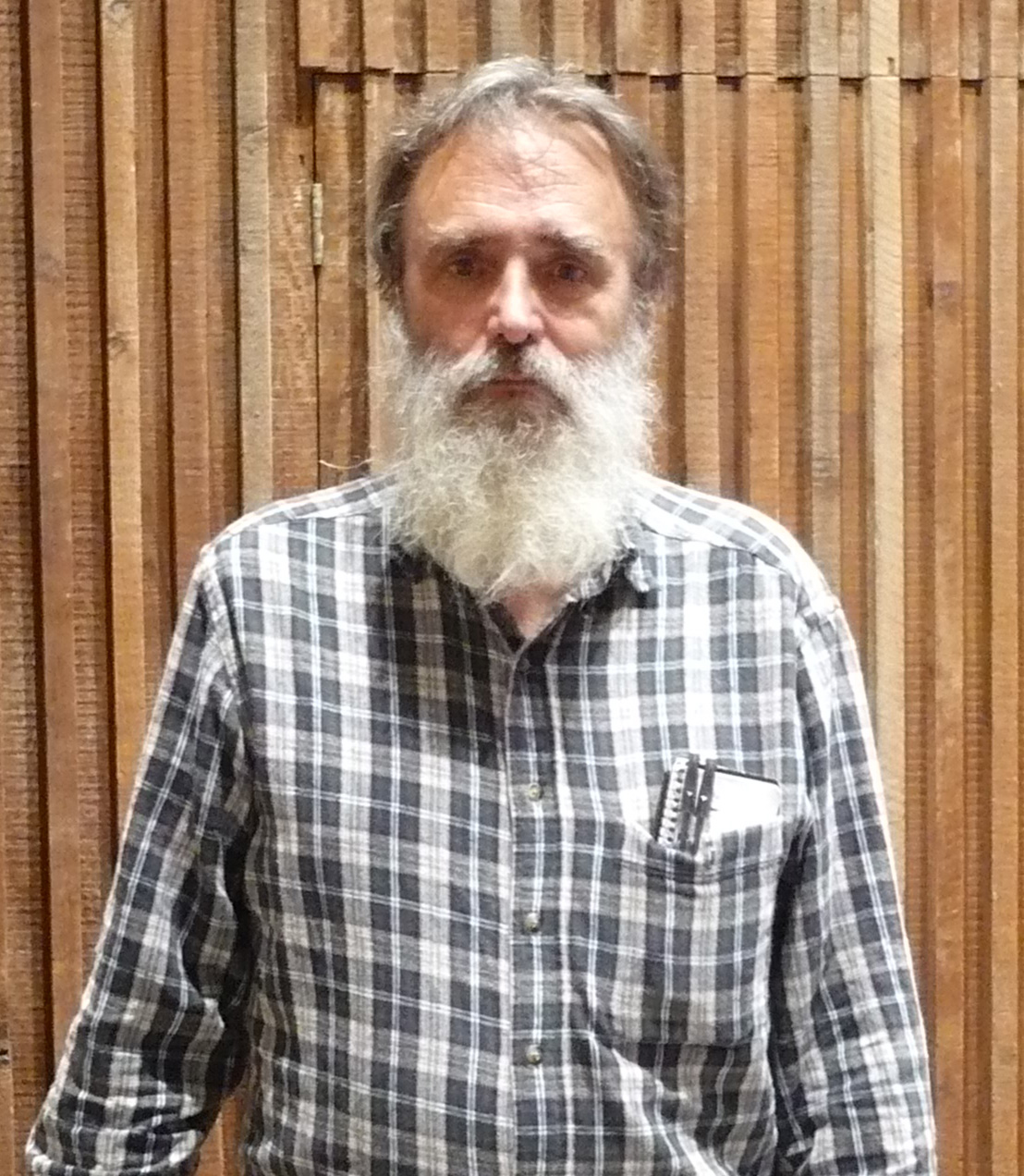 The American composer Stuart Saunders Smith. Photo taken at Guzzetta Recital Hall, University of Akron, Akron, Ohio, United States.